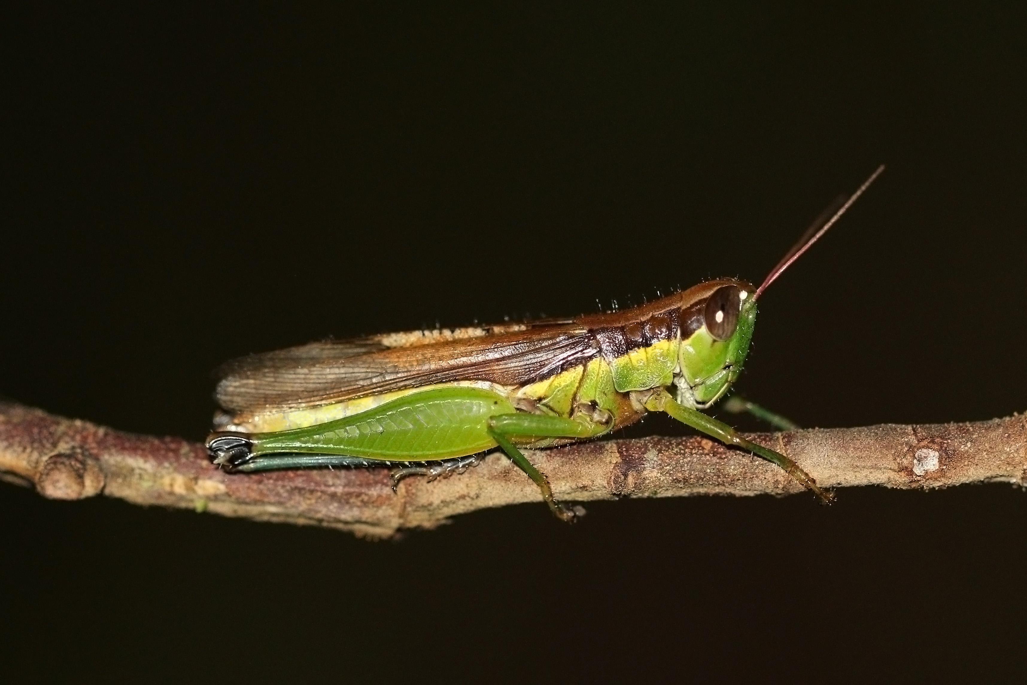 Chinese rice grasshopper (Oxya chinensis), Danum Valley, Sabah, Borneo, Malaysia